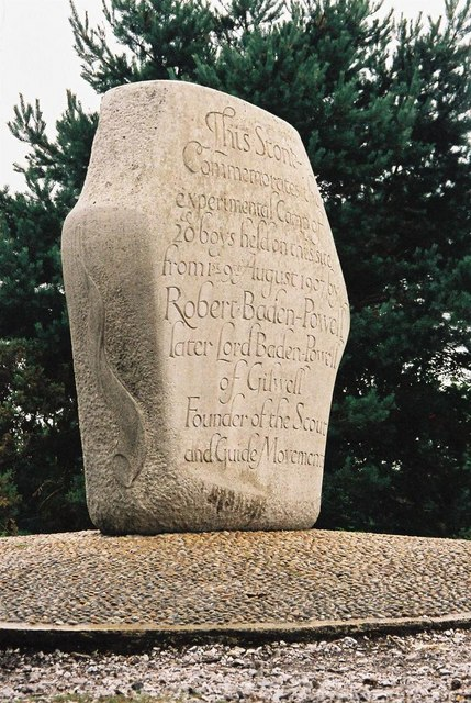 Robert Baden-Powell memorial on Brownsea